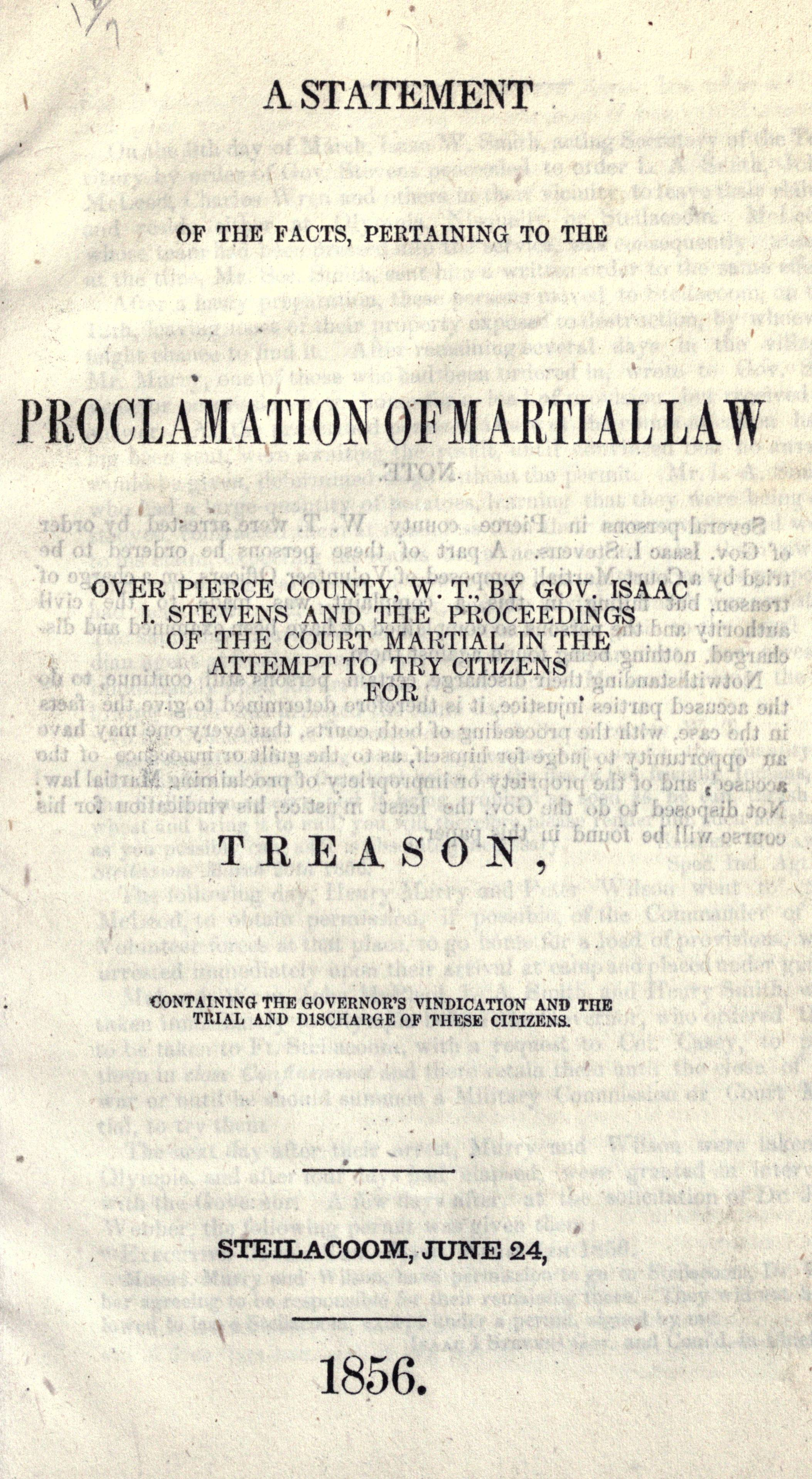 Cover of: A statement of the facts, pertaining to the proclamation of martial law over Pierce County, W.T., by Gov. Isaac I. Stevens and the proceedings of the court martial in the attempt to try citizens for treason by A statement of the facts, pertaining to the proclamation of martial law over Pierce County, W.T., by Gov. Isaac I. Stevens and the proceedings of the court martial in the attempt to try citizens for treason containing the governor's vindication and the trial and discharge of these citizens.